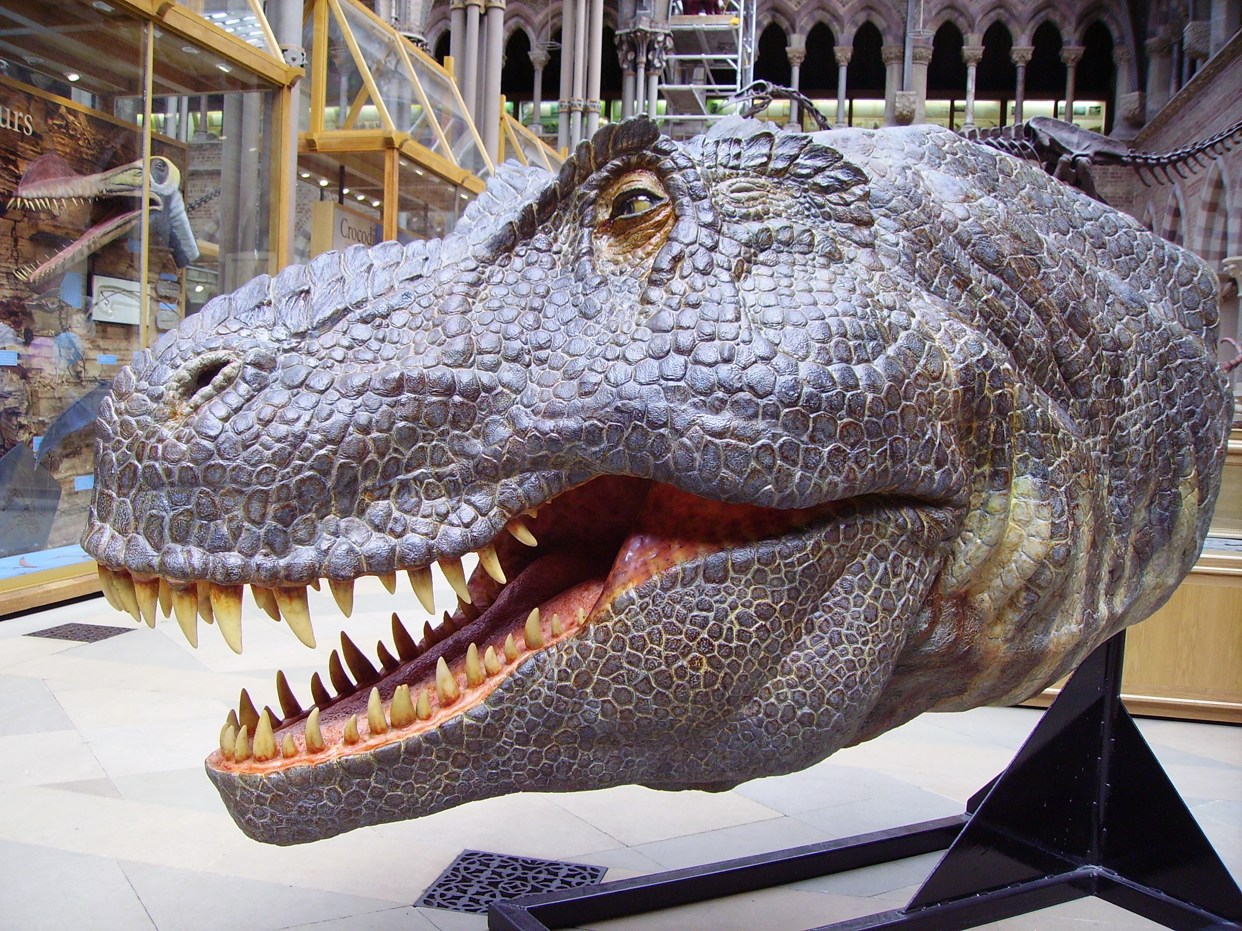 Photographer: User:Ballista